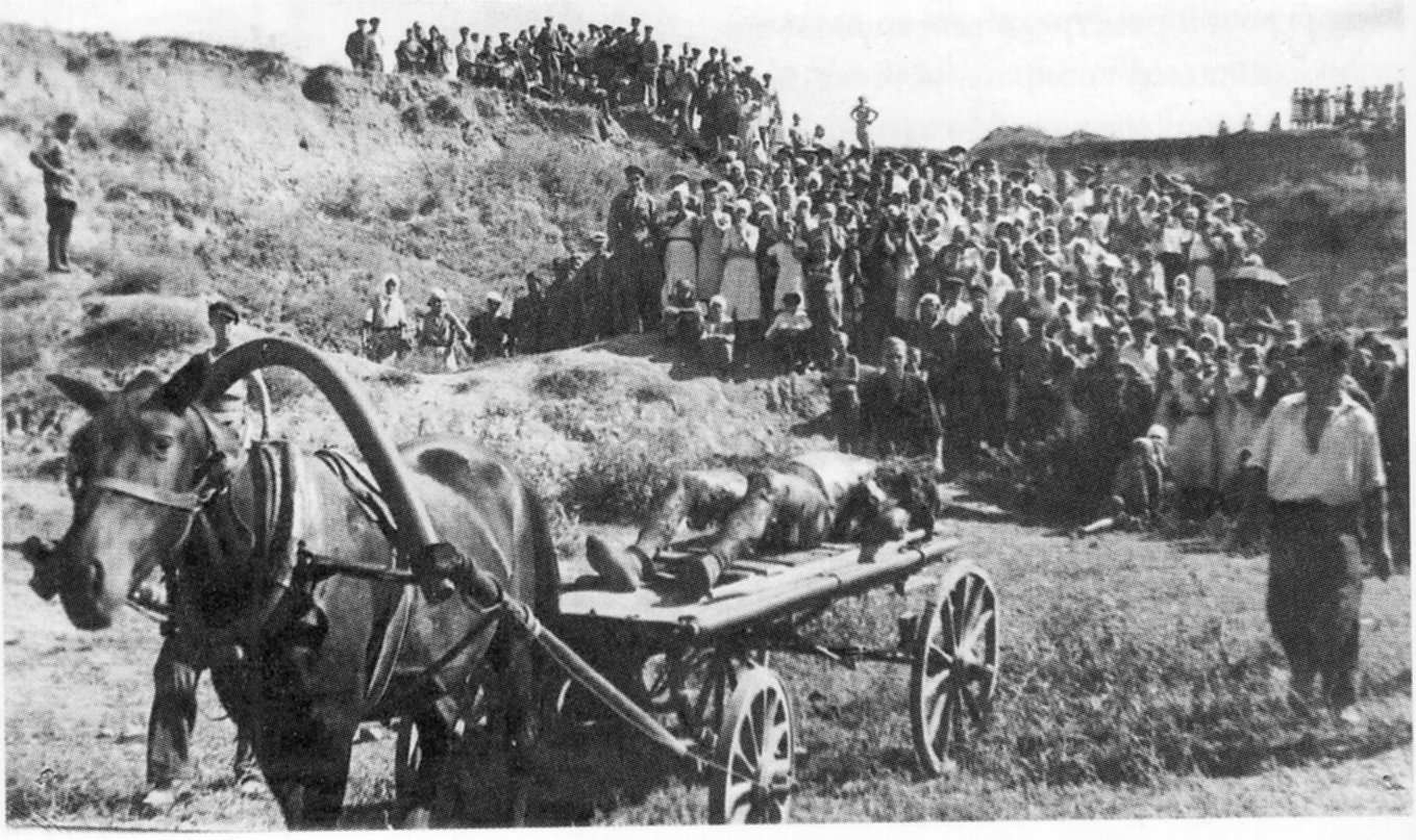 Early September 1943. People gathered at Gully of Petrushino, Taganrog